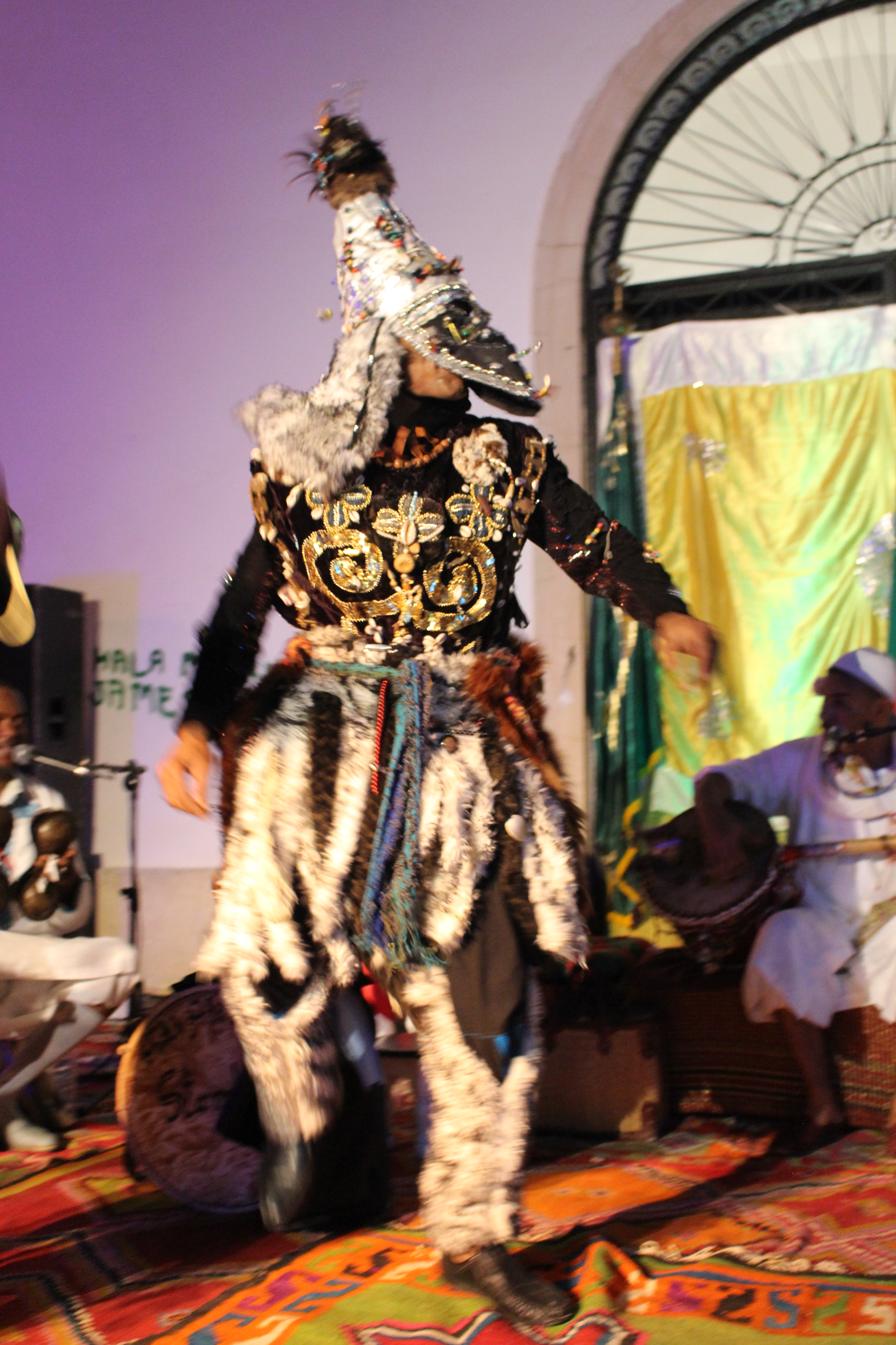 This is an image of music and dance from Tunisia